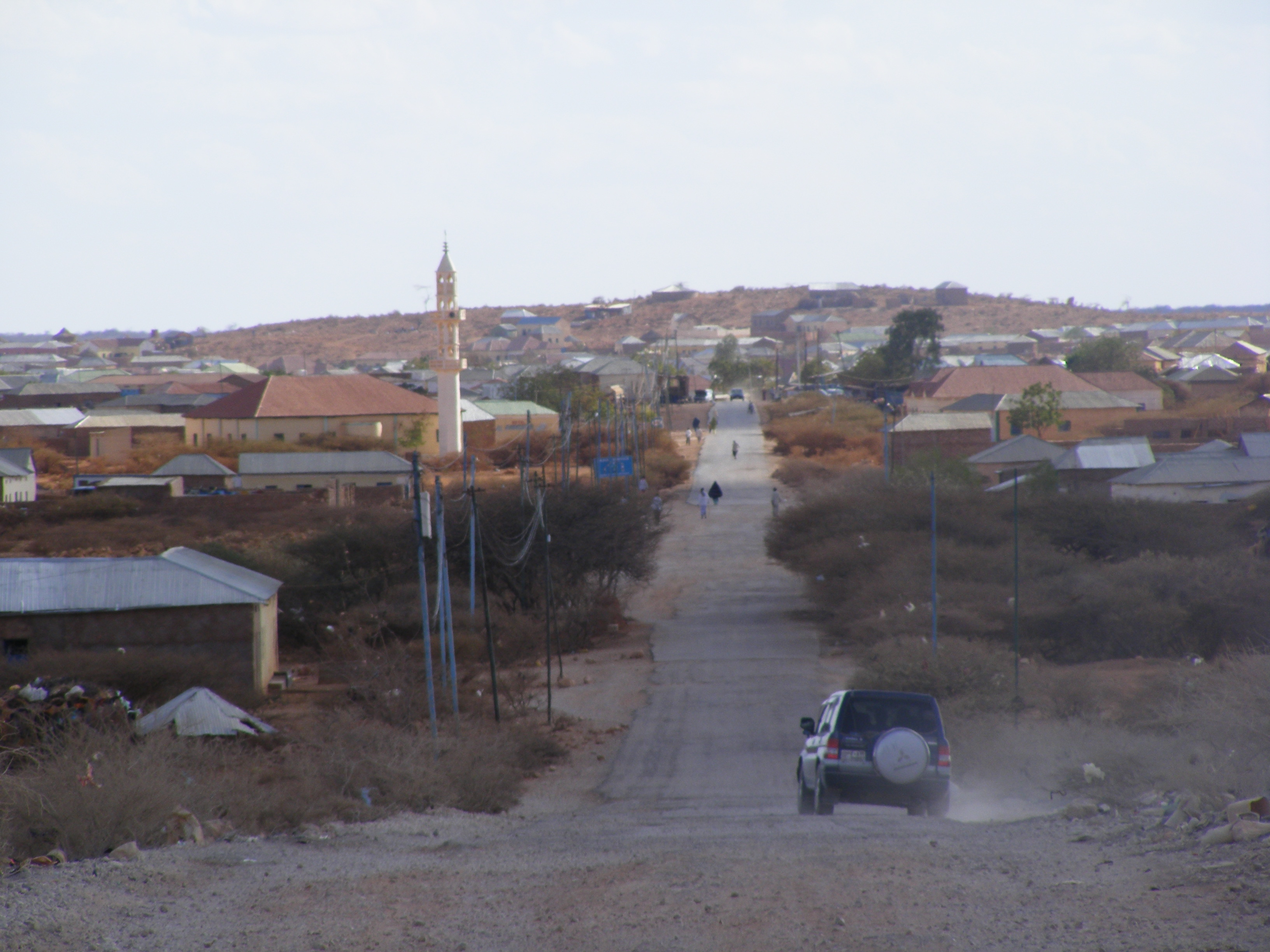 Street in Burtline, Somalia.